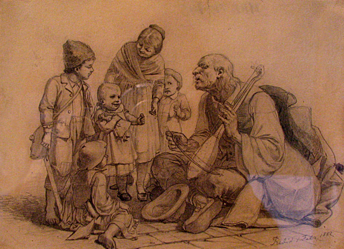 Uroš Predić, The Children around the Guslar, 1882, National Museum of Serbia